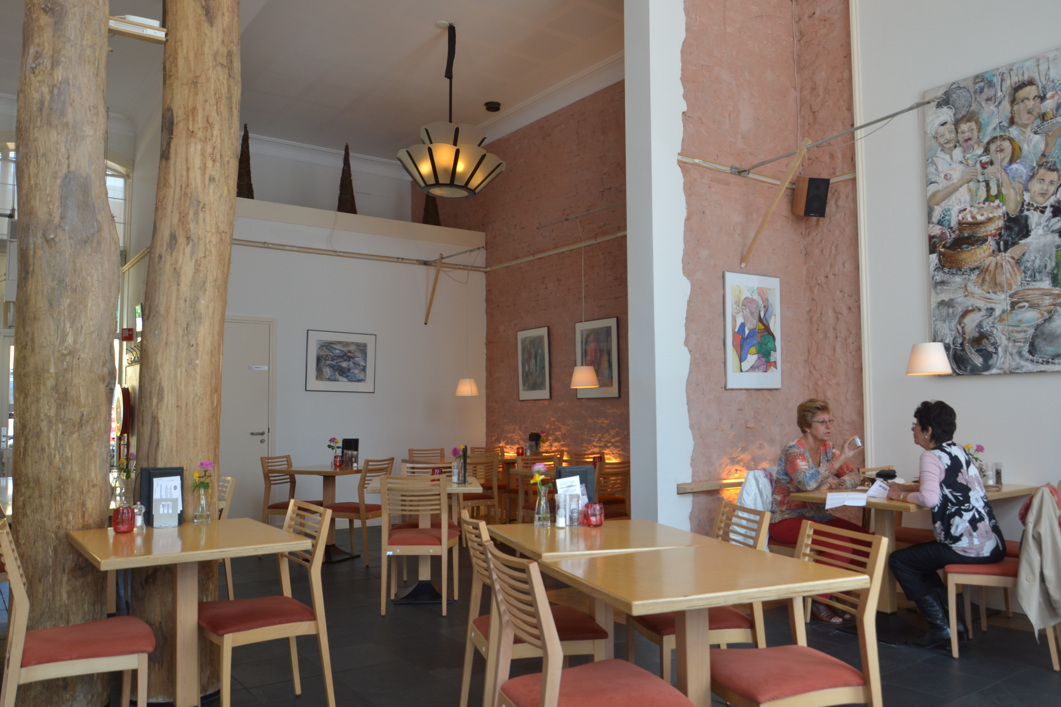 Interior railway station Tiel, The Netherlands. Restaurant Buitensporig.